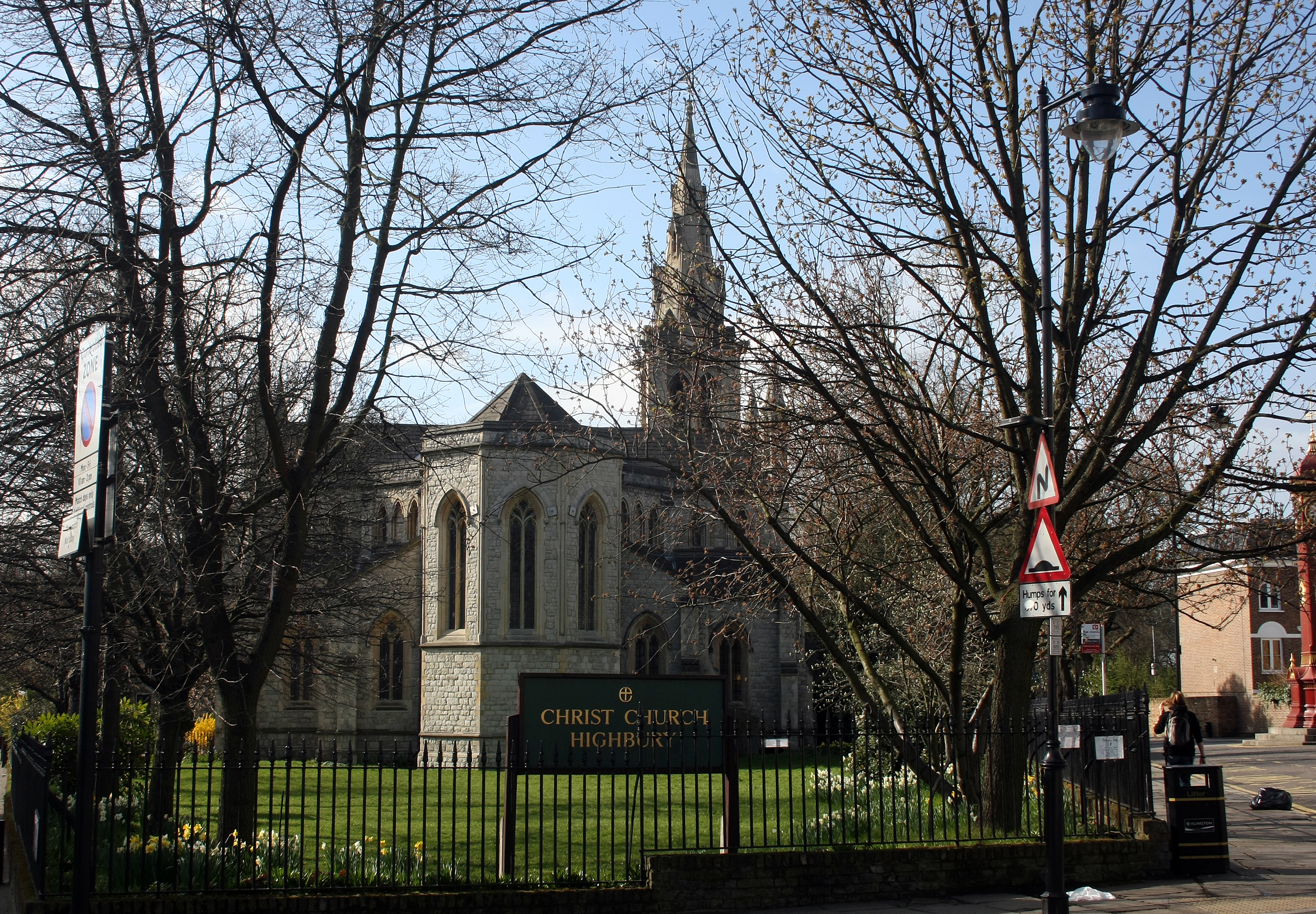 Christ Church parish church, Highbury Grove, London N5, seen from the north